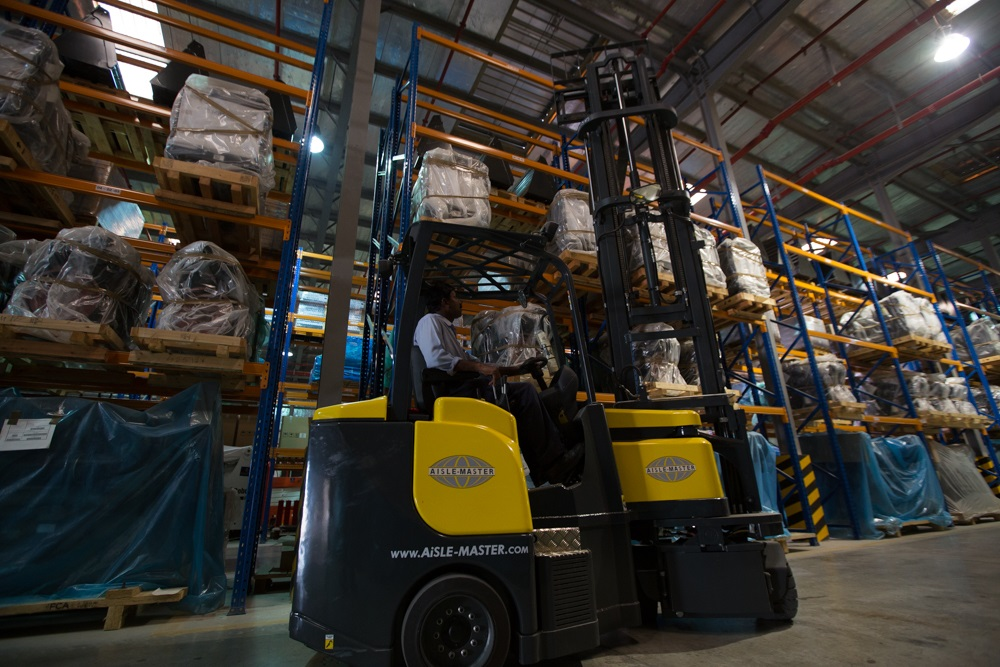 The Kanoo Group facility in Dubai